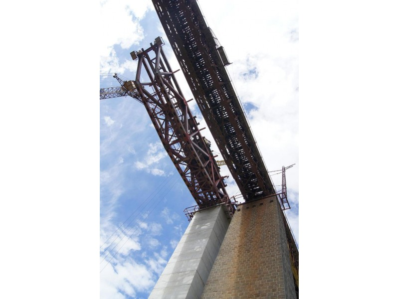 Zamanlu brigde